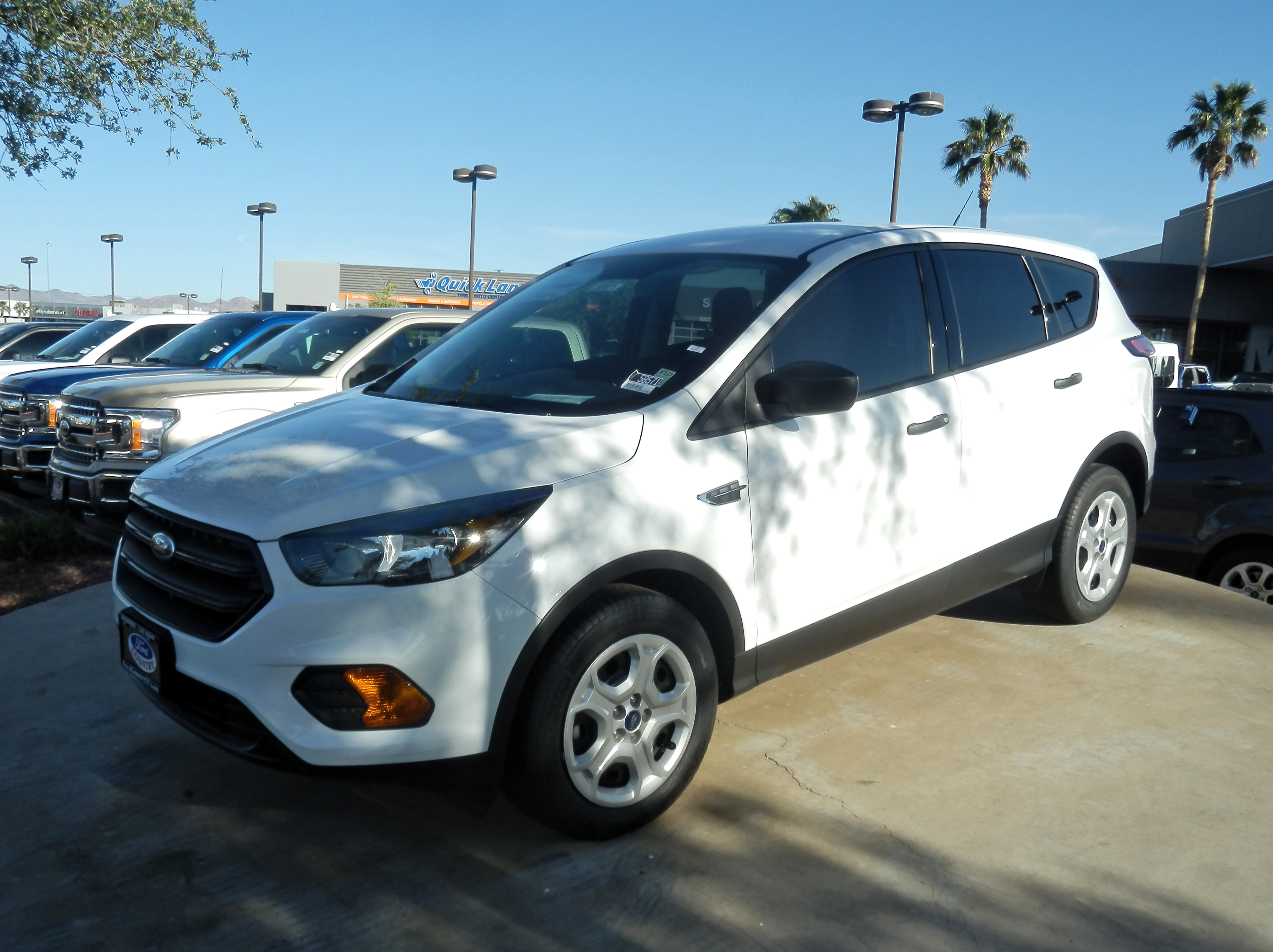 Ford Escape in Las Vegas